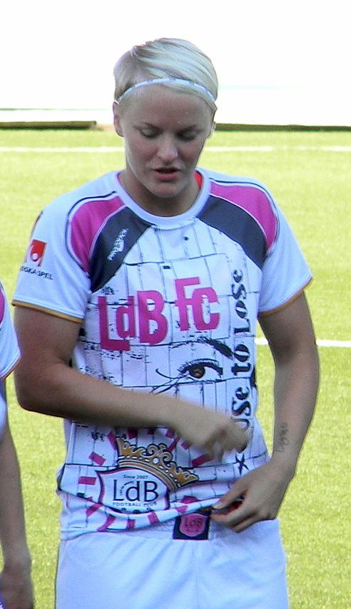 Nilla Fischer